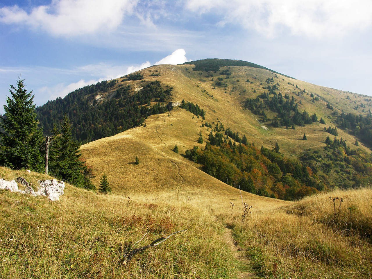 Southern side of Rakytov Mountain in Veľká Fatra, Slovakia